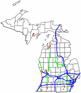 Map of Michigan showing: Interstate Highways Non-Intestate freeways Miscellaneous expressways